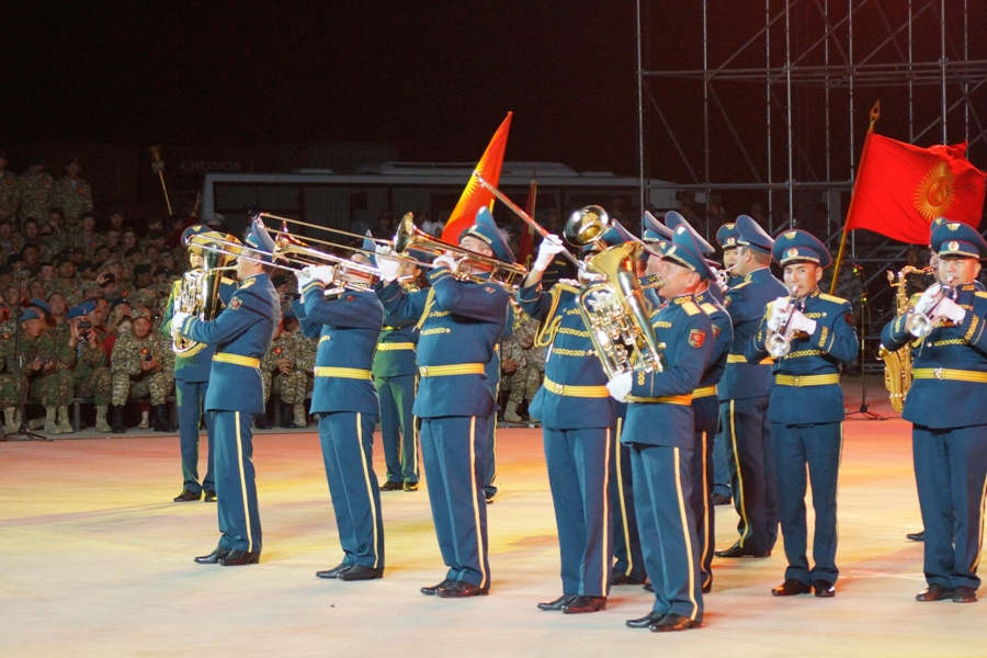 Первый Международный военно-музыкальный фестиваль «Труба мира» в рамках международного учения «Мирная миссия-2014»